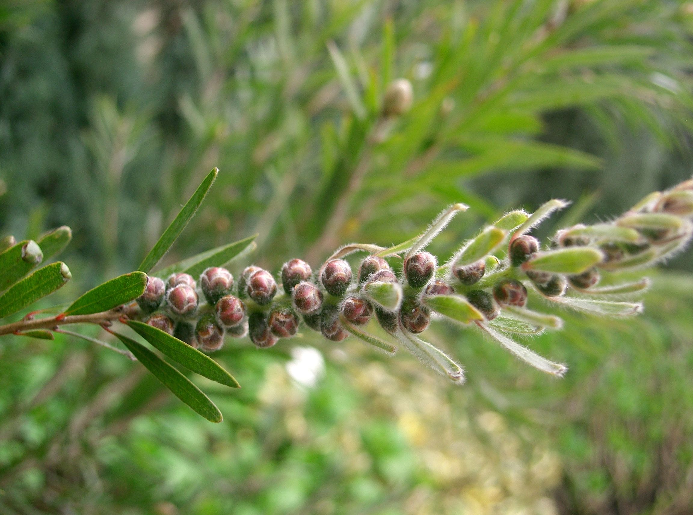 Callistemon viminalis 'DawsonRiver'